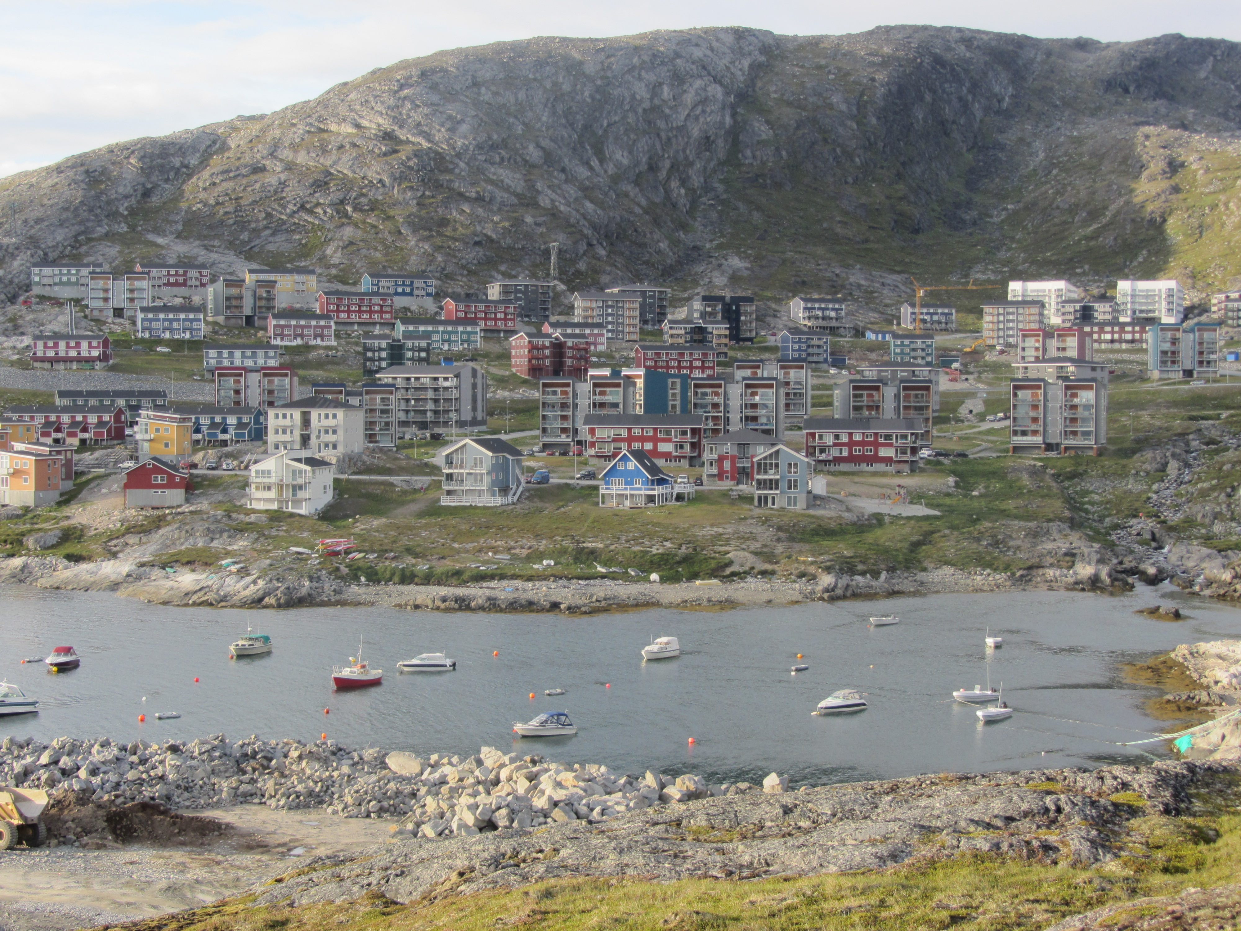 Qinngorput in Nuuk, Greenland